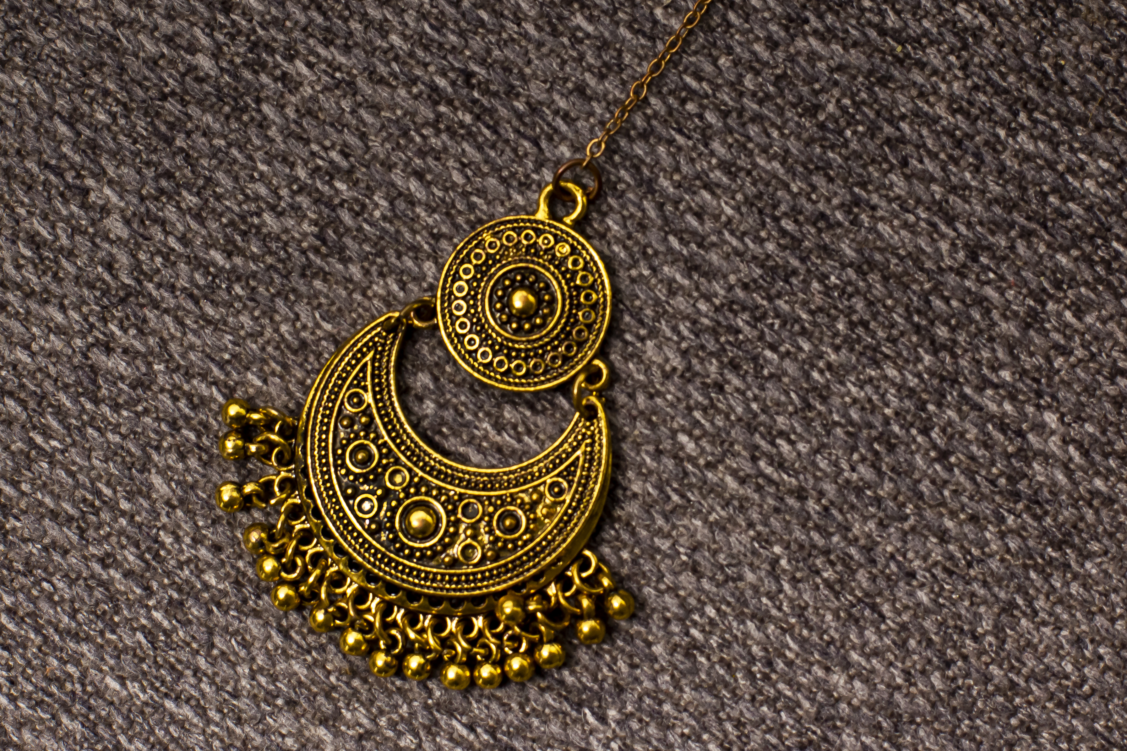 Bronze Ornaments